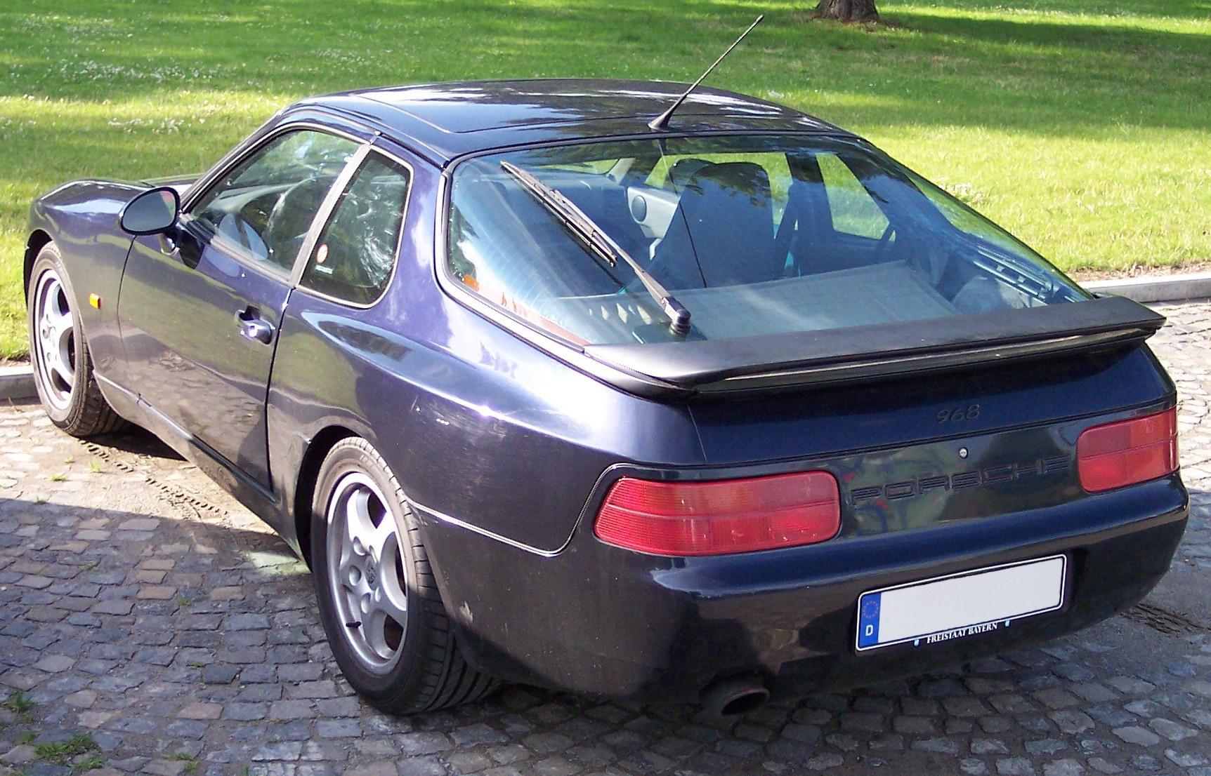 Porsche 968 rearview.